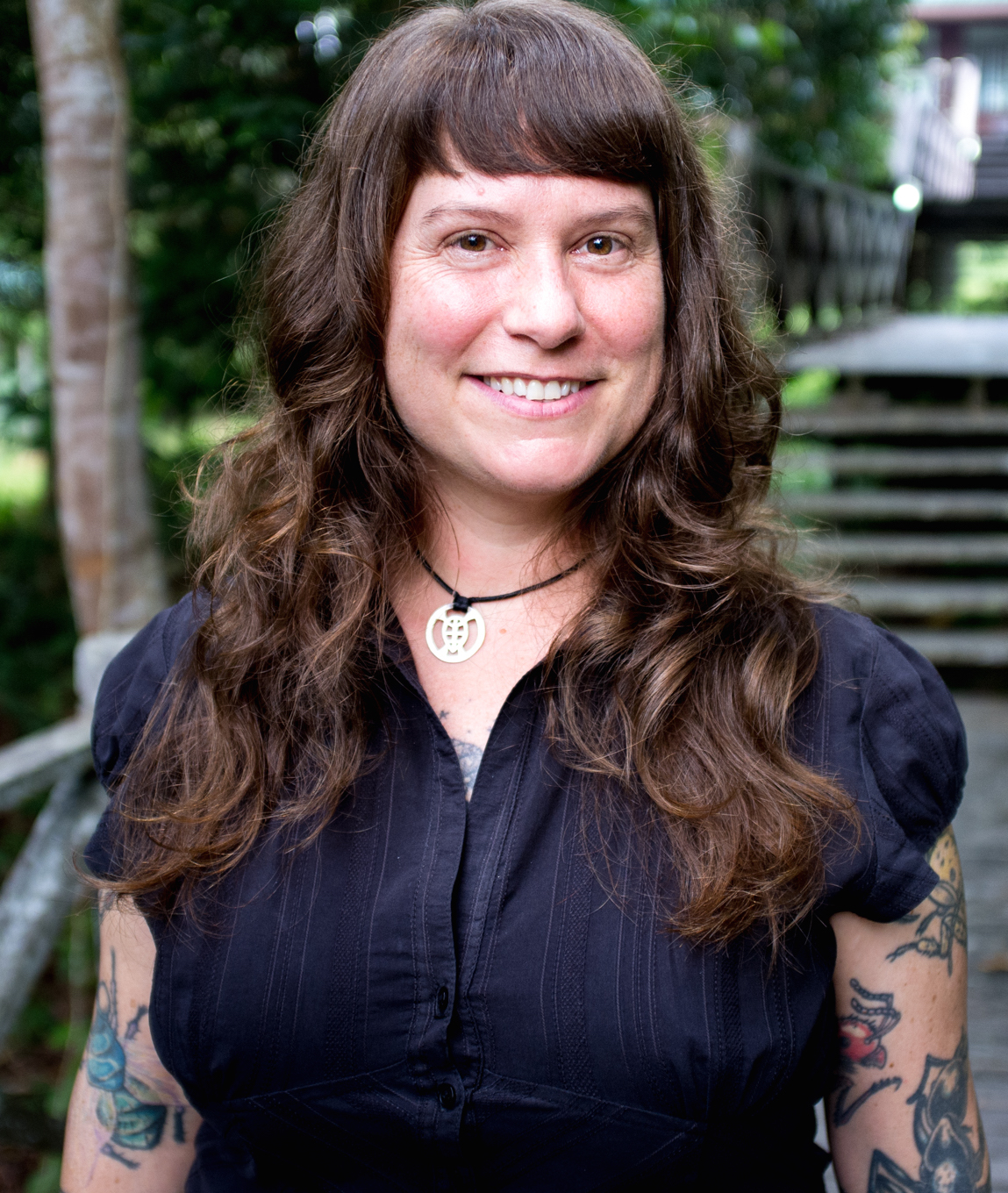 Corrie S. Moreau Photograph by Roberto Keller-Pérez